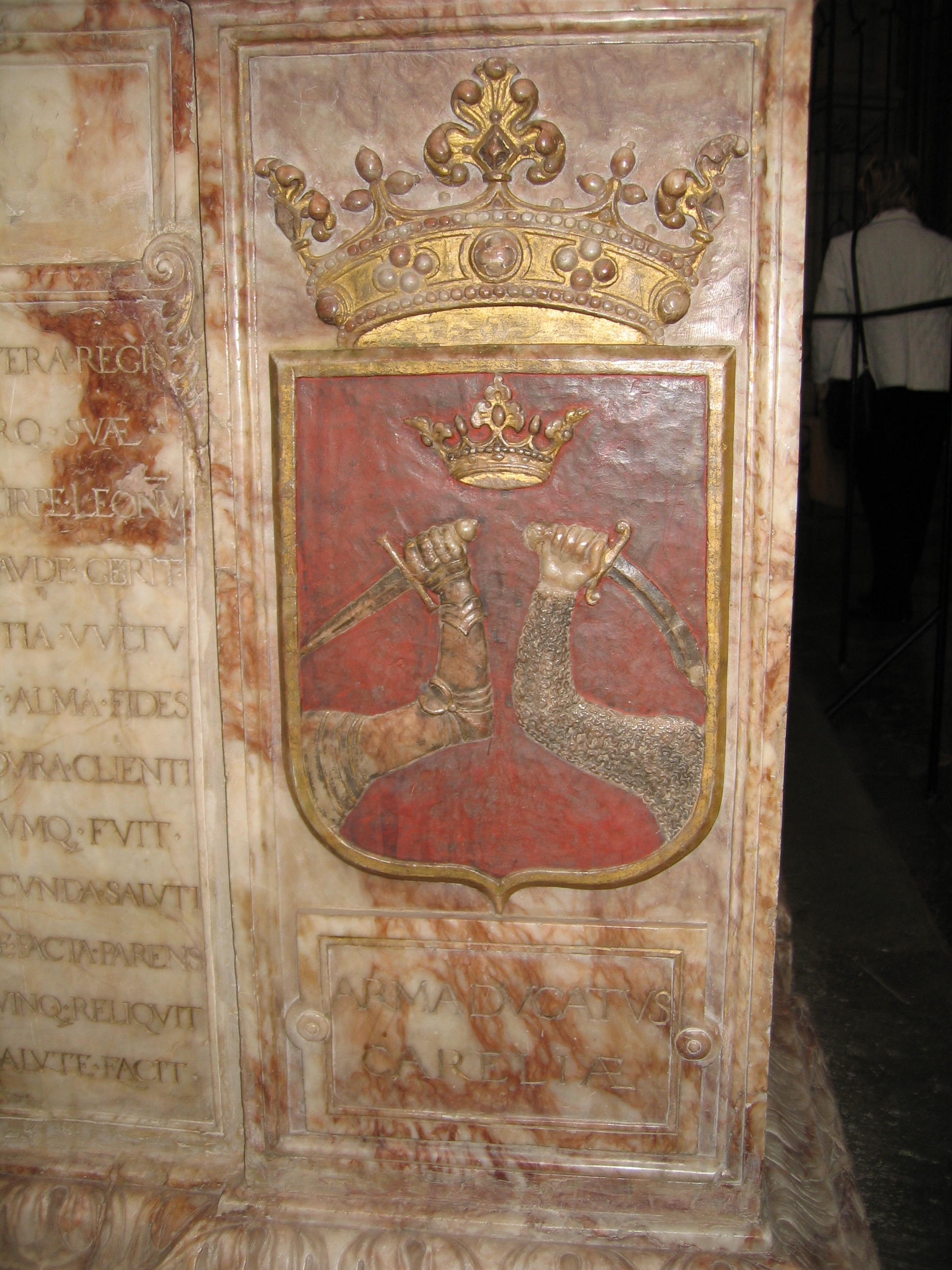 Photograph of the Coat of Arms of Karelia on the tomb of Gustavus I (Uppsala cathedral, Sweden)